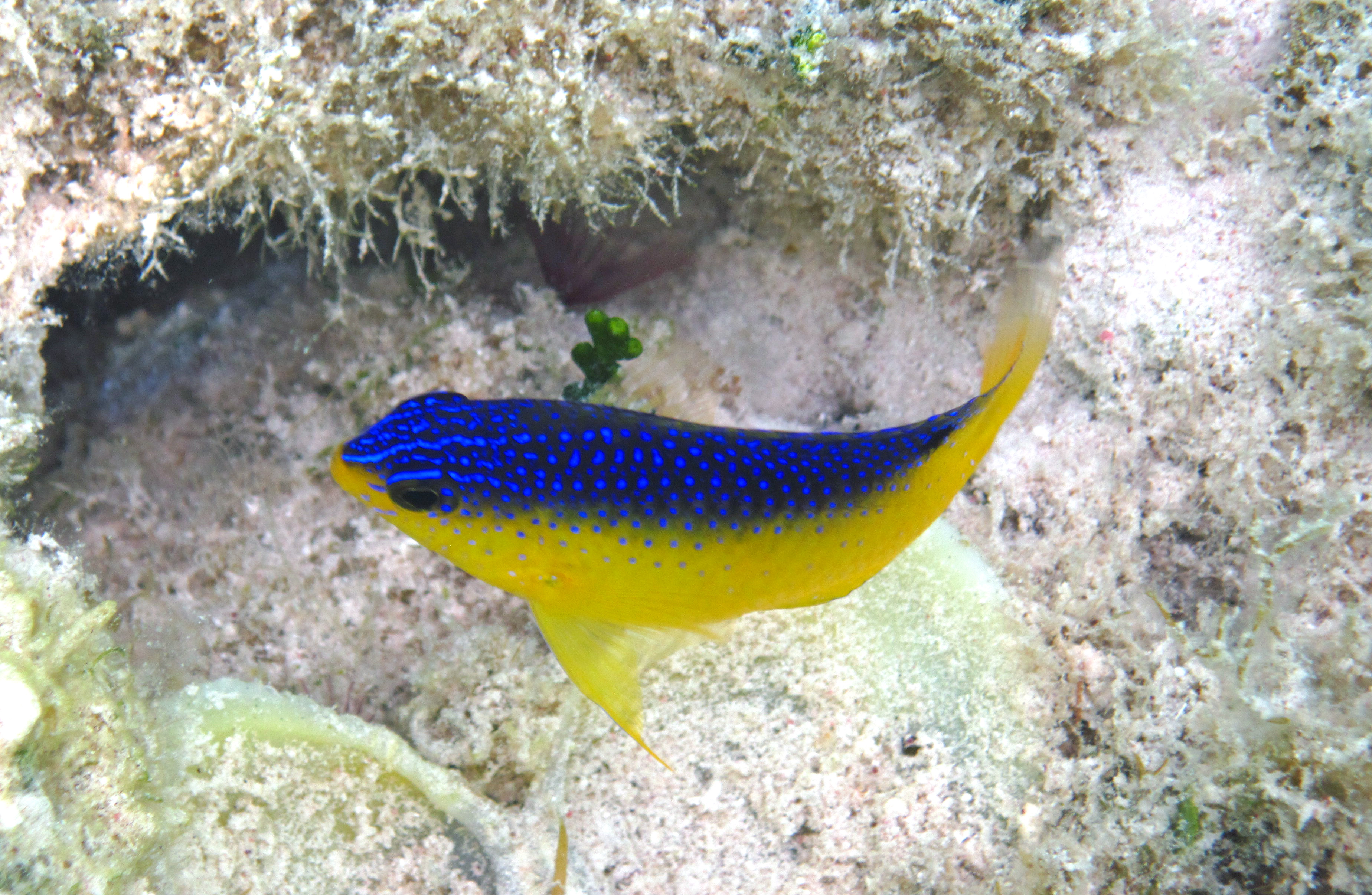 Stegastes leucostictus (Müller & Troschel in Schomburgk, 1848) - juvenile beaugregory above shallow subtidal seafloor. The beaugregory is a variety of damselfish. Juveniles are brightly colored with blue, yellow, and near-black. Adults are brownish-colored. Classification: Animalia, Chordata, Vertebrata, Actinopterygii, Perciformes, Pomacentridae Locality: near small patch reef just west of Cut Cay, eastern Graham's Harbour, northeastern San Salvador Island, eastern Bahamas